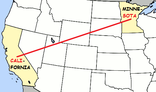 A map clarifying the locations of and distance between California and Minnesota, the particles of portmanteu word Calisota, fictional U.S. state invented by Carl Barks.